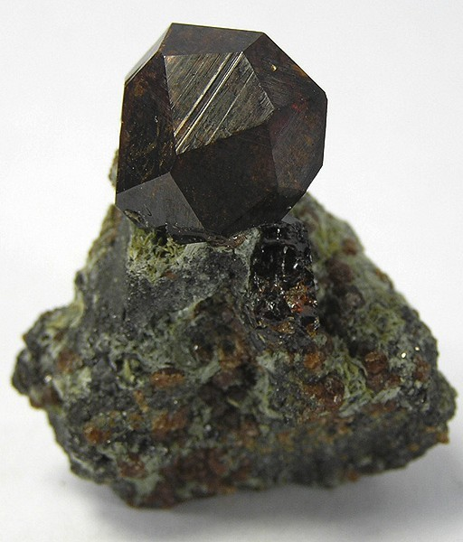 Andradite Locality: Dashkesan (Dashkezan) Co-Fe deposit, Dashkesan, Daşkəsən (Daskasan; Dashkyasan) District, Azerbaijan (Locality at ) Size: 3.3 x 2.9 x 1.5 cm. From the Bill Larson garnet suite, a deep wine-red andradite garnet that could not be more perfectly displayed, perched on its natural matrix base. At 1.5 cm, it is complete and undamaged, with pretty striations on its faces.